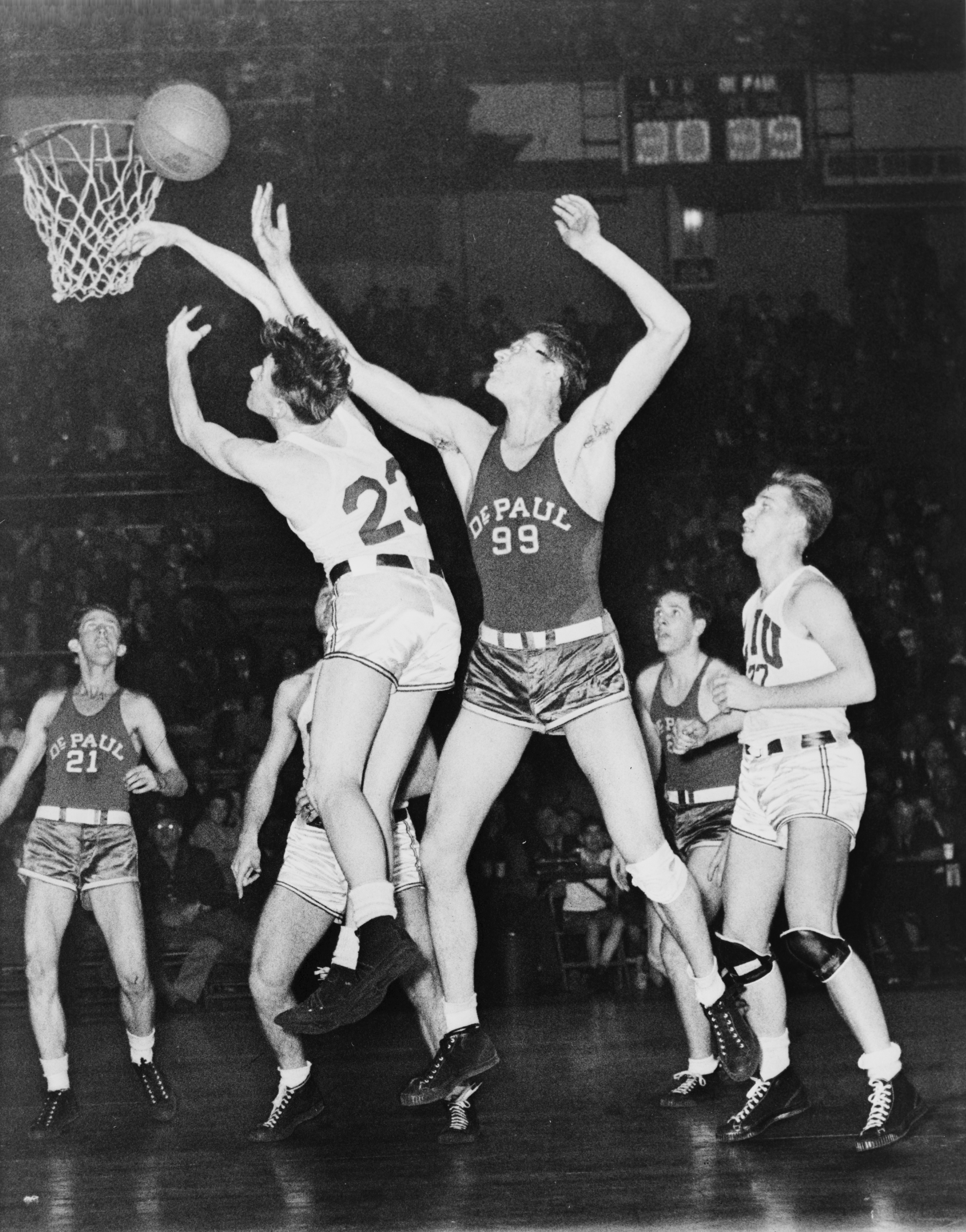 George Mikan(99) and Jack Allen (21) of DePaul University and Carl Meinhold (23), Elmer Benyak (27) of Long Island University during basketball game at Madison Square Garden, New York